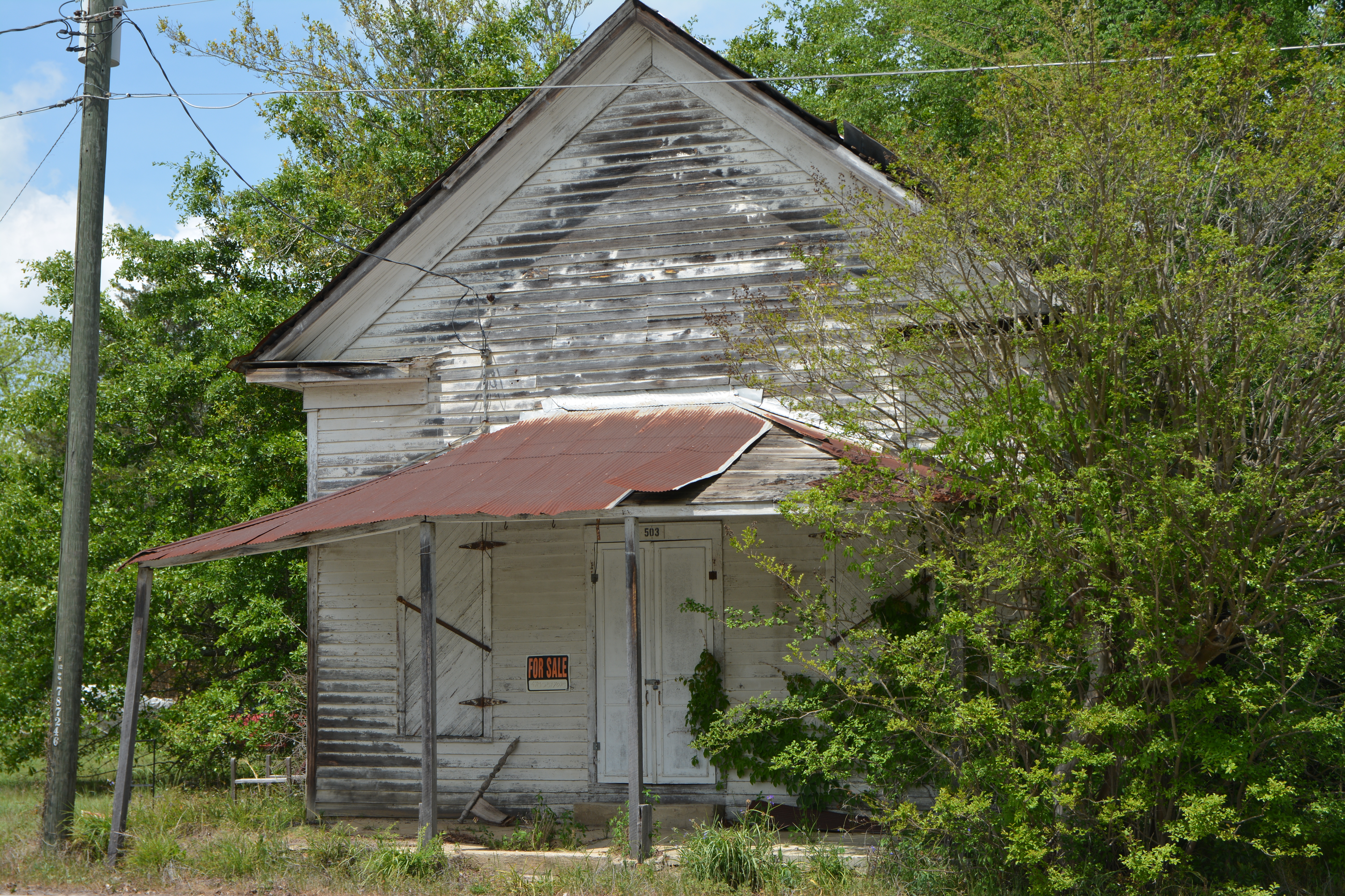 Twin City Historic District, Twin City, Georgia, U.S.